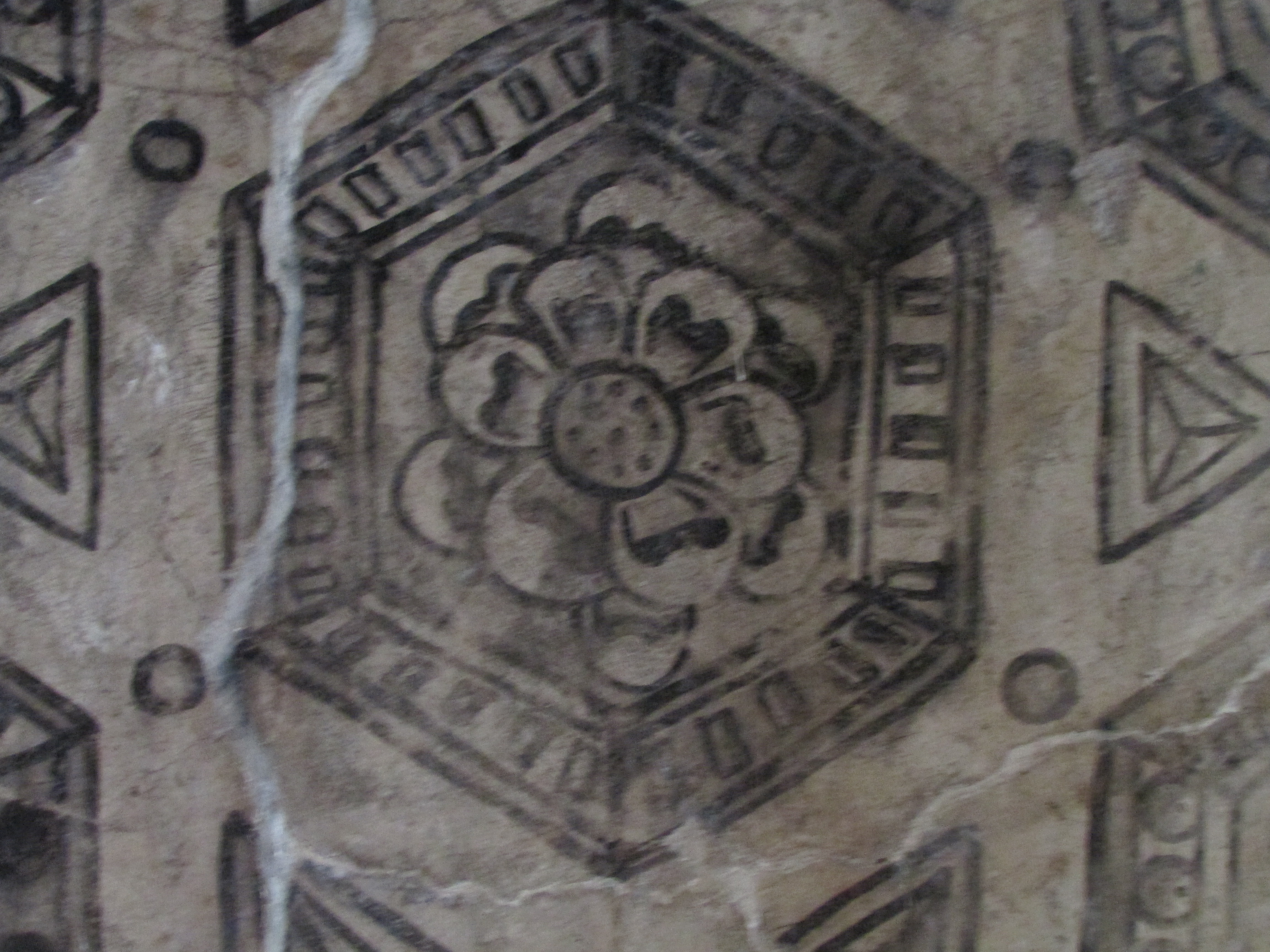 Painted flower, a fresco detail. Lower cloister of the San Juan Evangelista ex convent at Culhuacan